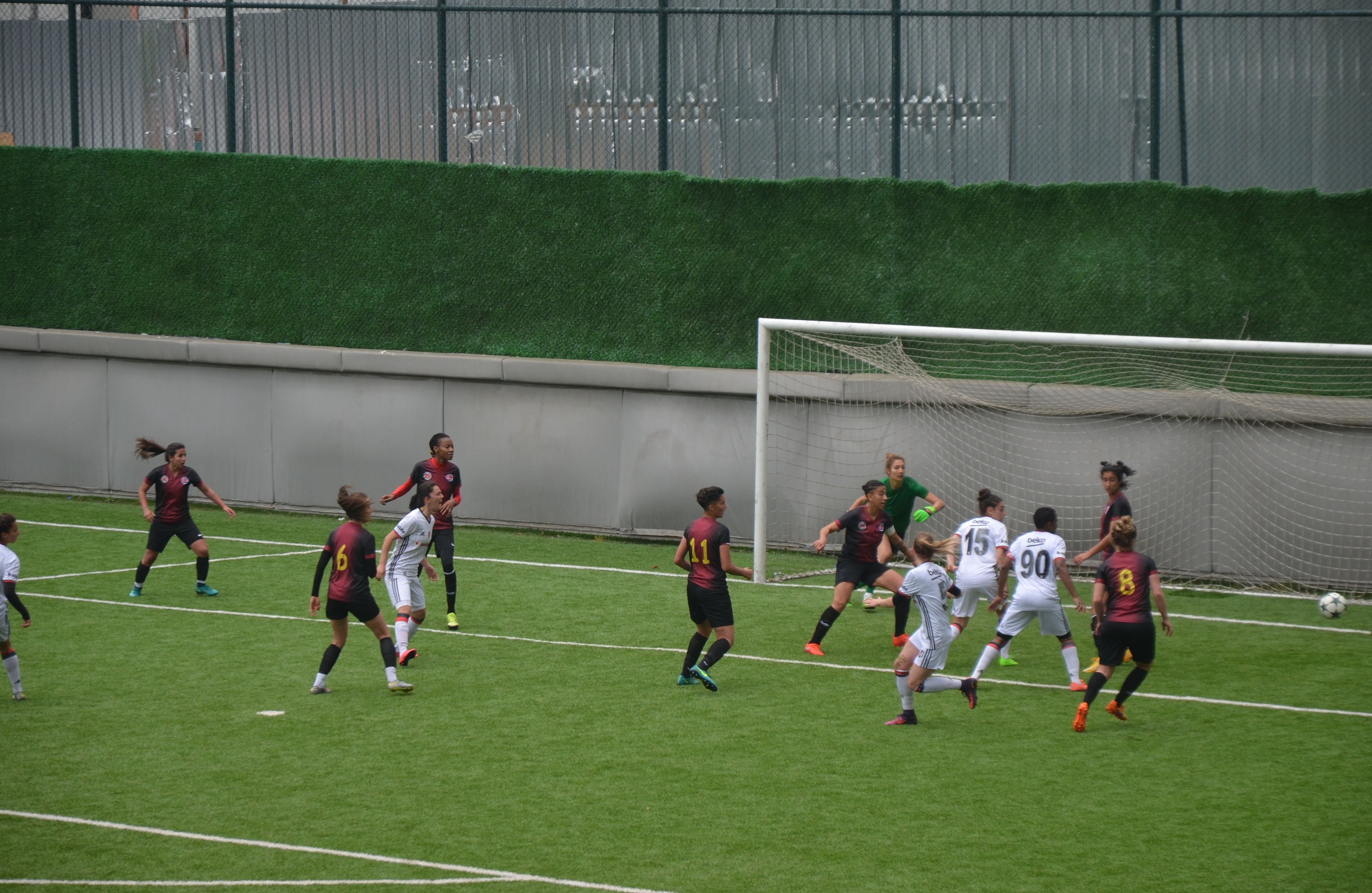 Beşiktaş J.K. vs 1207 Antalya Döşemealtı Belediyespor in the 2016-17 season's play-off match at Beşiktaş J.K. Fulya Stadium